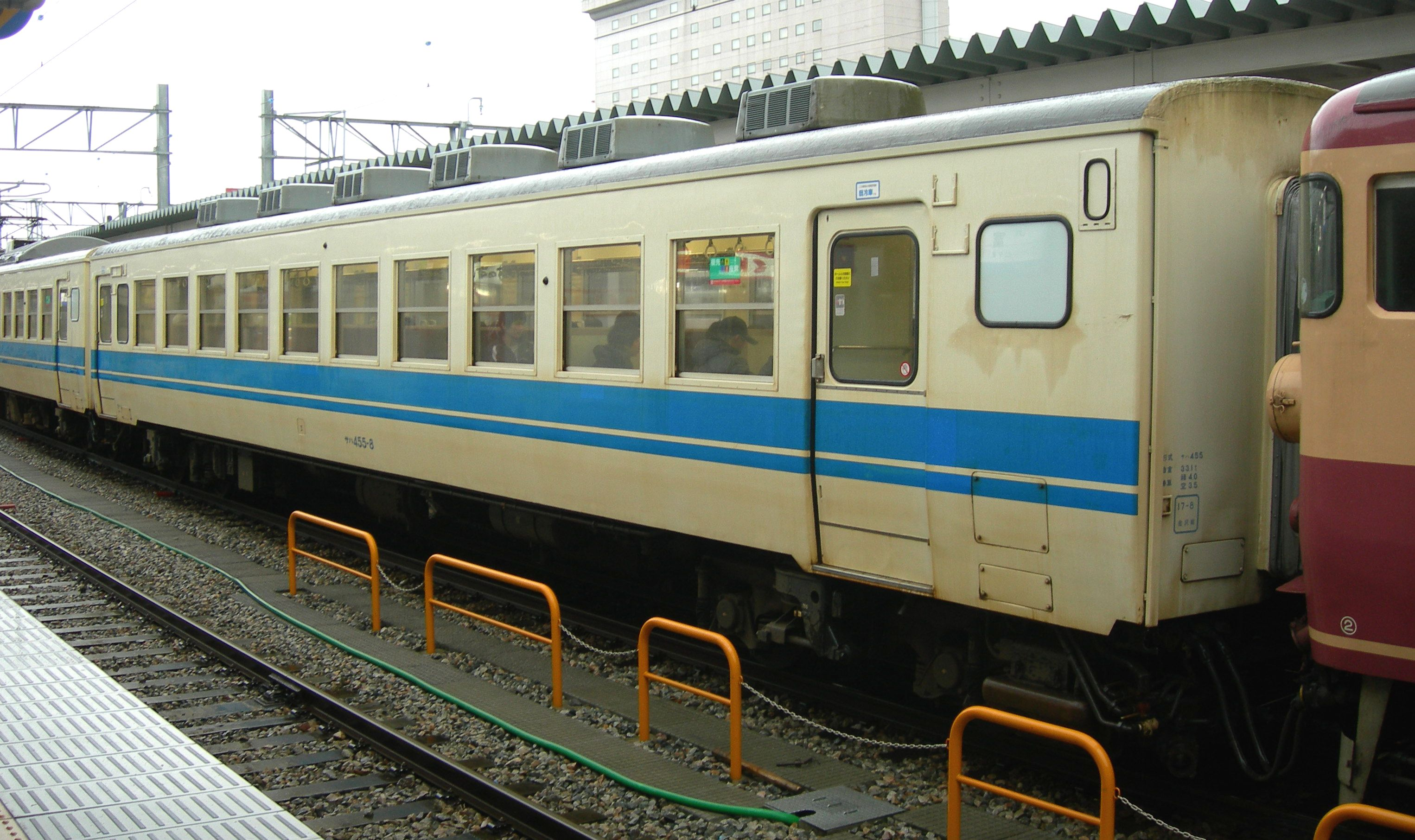 JR West 455 series EMU car SaHa 455-8 in a mixed 475/455 series set at Toyama Station